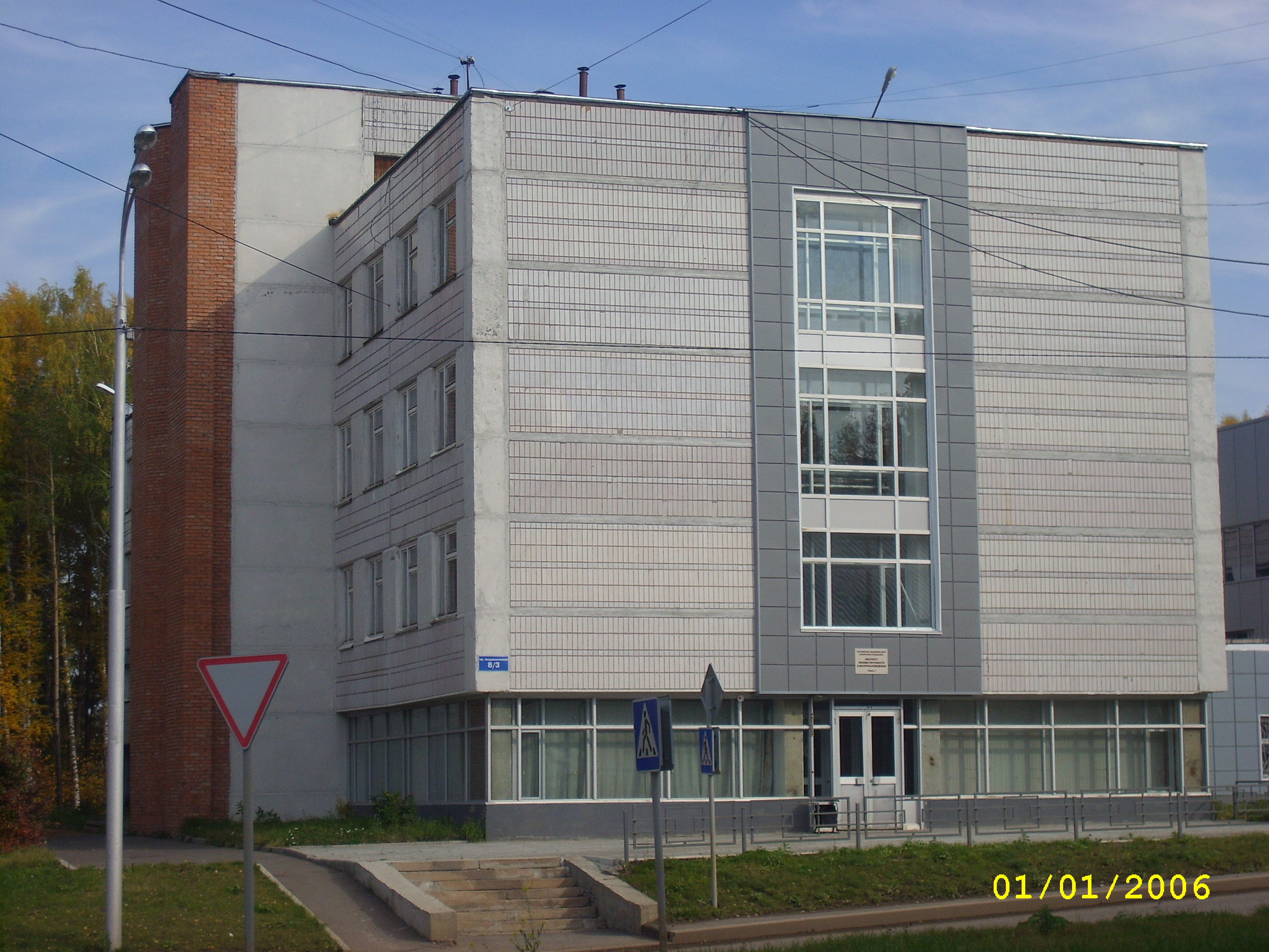 Building #2 at the Institute of Strength Physics and Materials Science of the Siberian Branch of the Russian Academy of Sciences in Tomsk, Russia